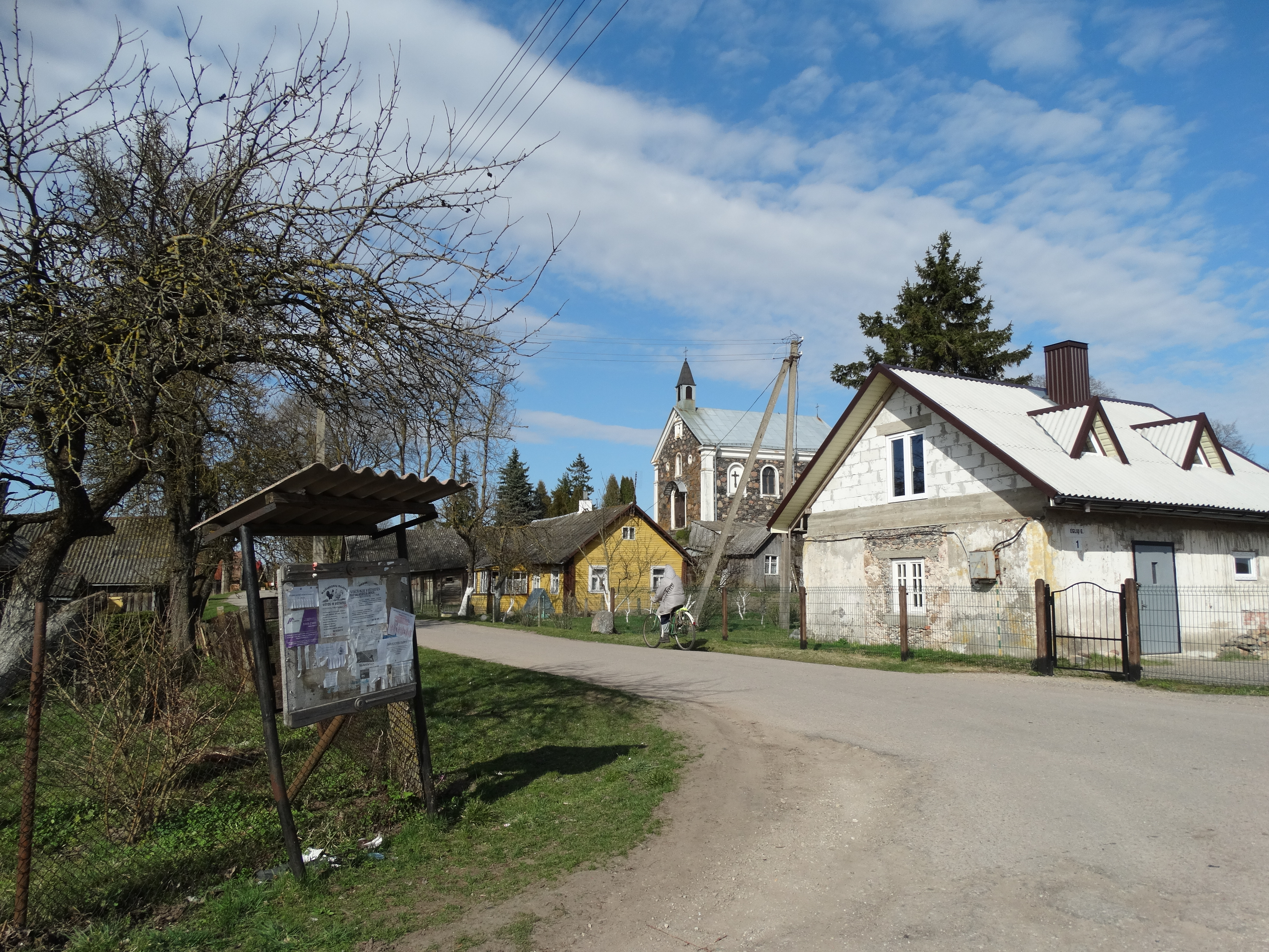 Barklainiai, Panevėžys District, Lithuania